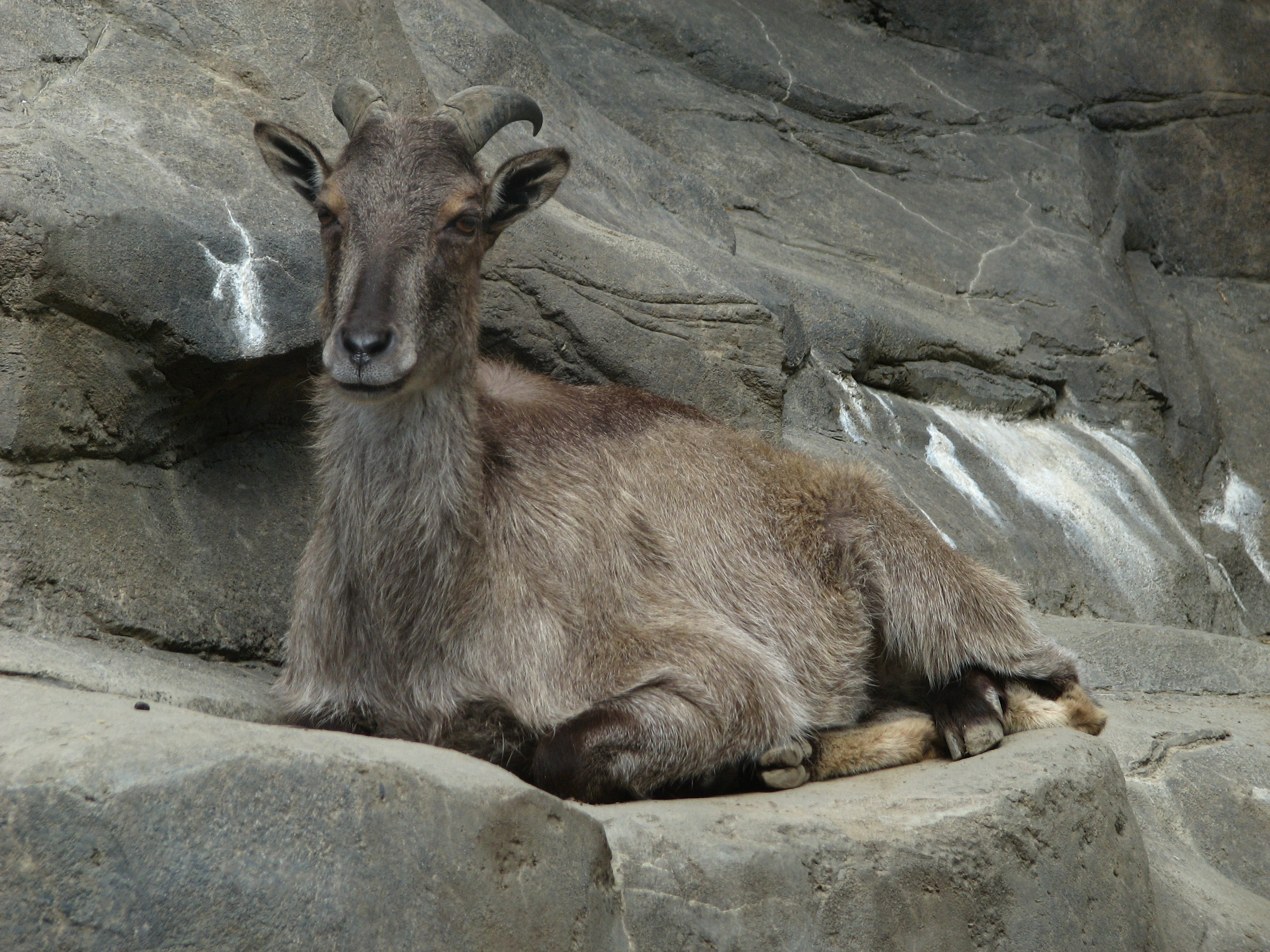 A Himalayan Tahr (Hemitragus jemlahicus) lying down at the Akron Zoo in Akron, Ohio.